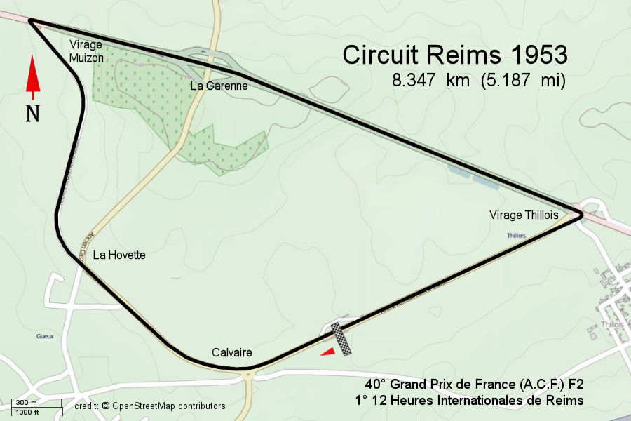 Circuit Reims 1953 (OpenStreetMap)